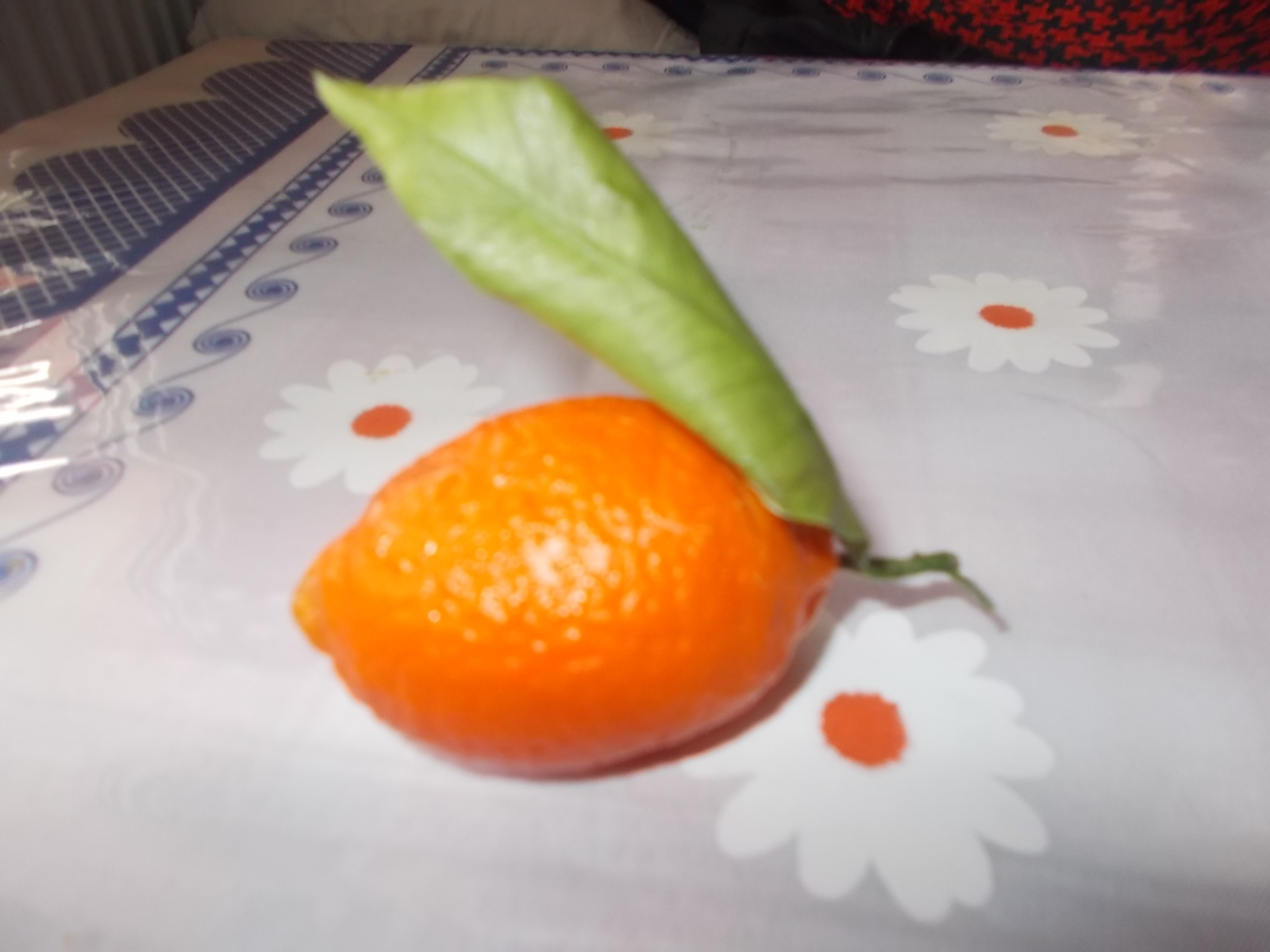 Orange shaped mandarin orange